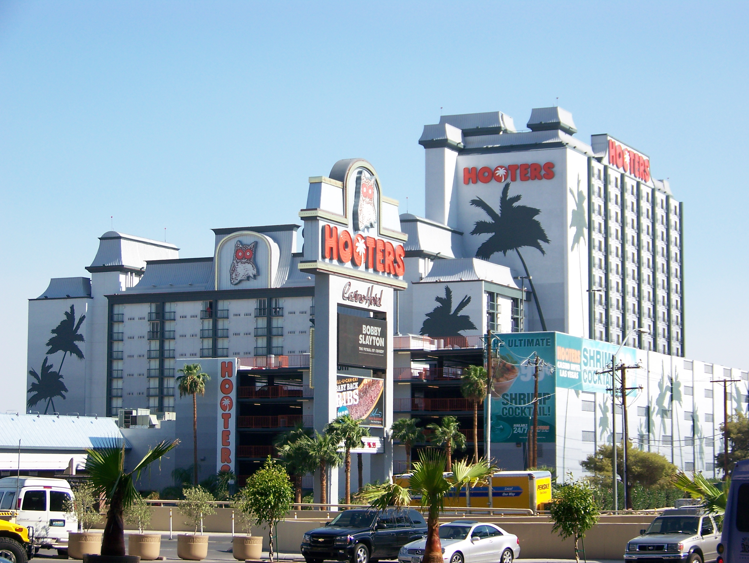 The front of the Hooters Casino Hotel located in Las Vegas, Nevada. Image taken on August 23, en:2007. Picture taken by Nehrams2020, and I release any rights I may have to it into the public domain. However, it depicts the trademark of the Hooters franchise (on the building and a sign in front of the building) for the casino Hooters Casino Hotel, which is copyrighted and trademarked by Hooters. The image is being used to illustrate the exterior of the casino in question and its use on Wikipedia is entirely encyclopedic in nature.